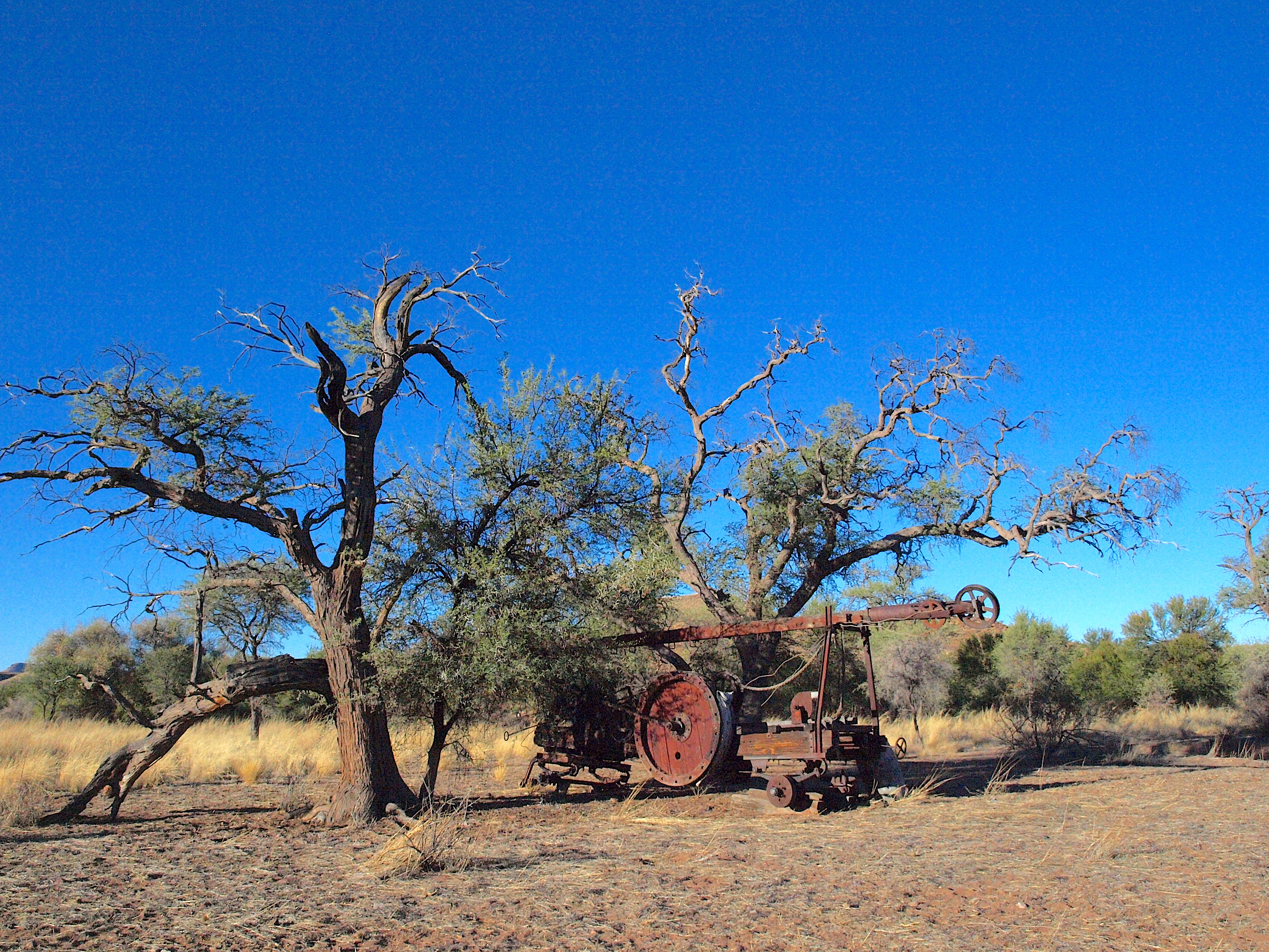 Old water drilling machine Namibia (2010)